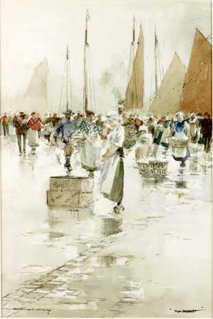 A typical Rainbird image of a Fish Market